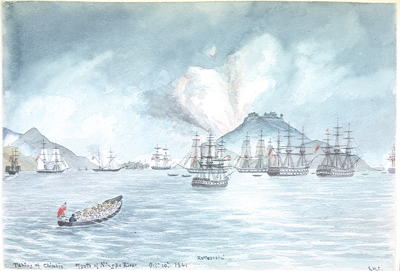 Taking of Chinhai at the mouth of the Ningpo River on 10 October 1841, showing HMS Rattlesnake.